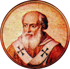 Portrait of Pope Benedict VIII in the Basilica of Saint Paul Outside the Walls, Rome